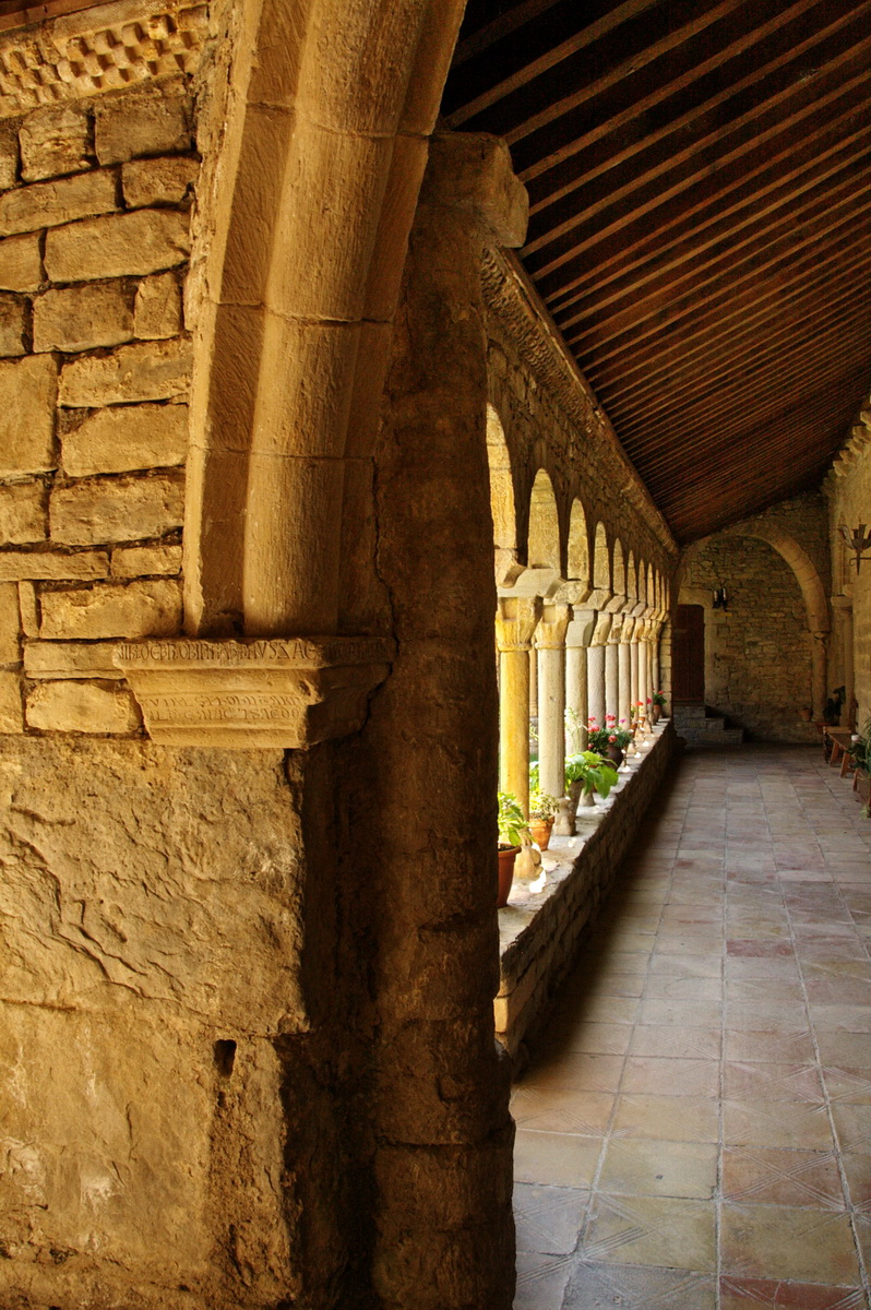 Cloister of the San Vicente Cathedral, in Roda de Isábena, Huesca, Spain.